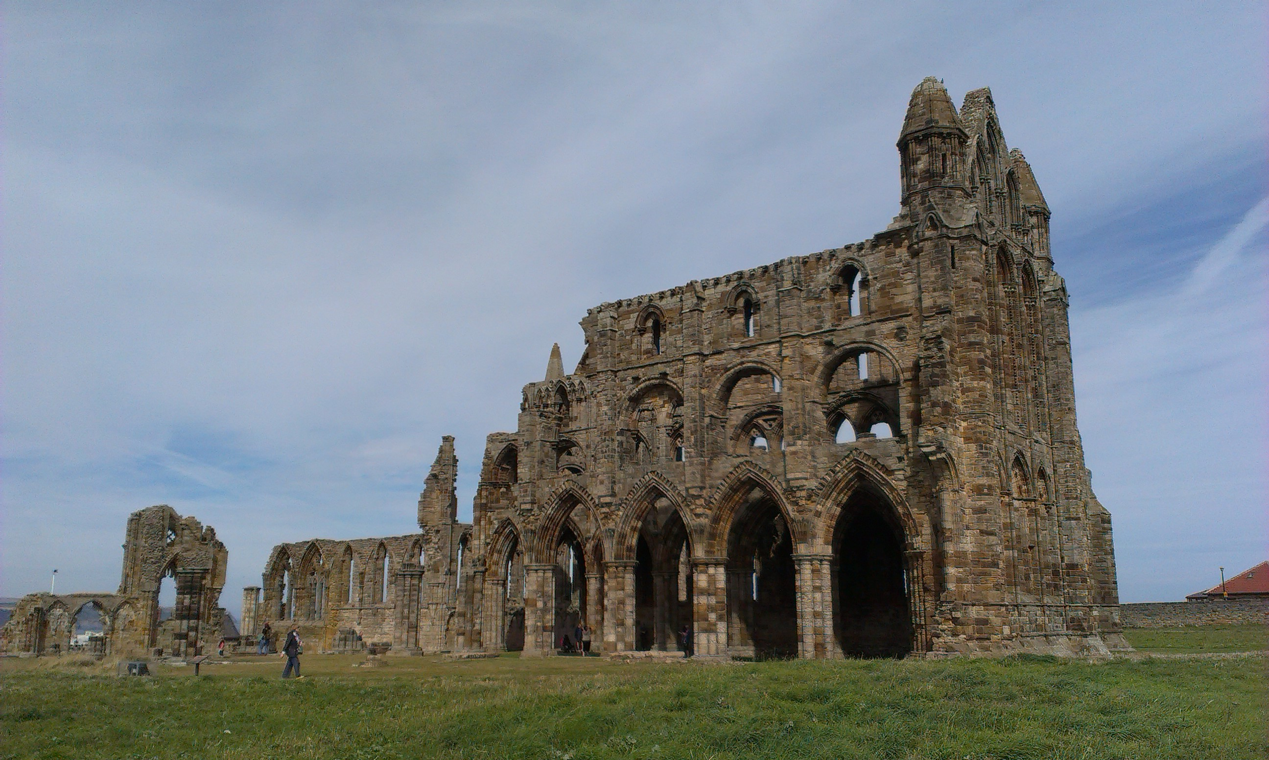 Whitby Abbey (ruins)